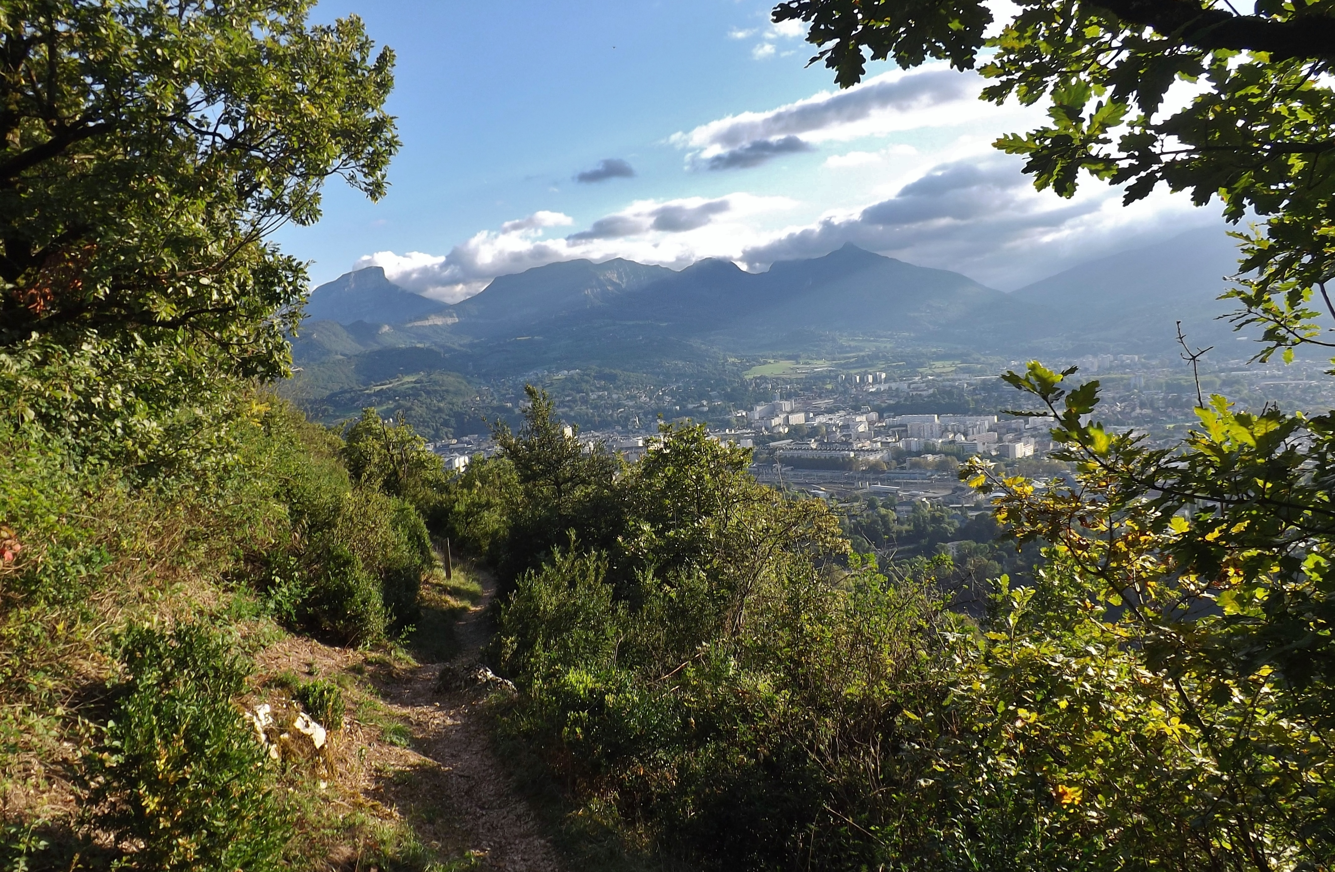 Panoramic sight of the city of Chambéry (Savoie, France), from the foot track along the cliff, and part of the Les Monts park.